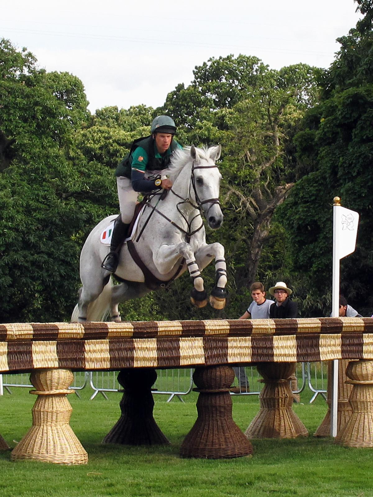 Olympic 3-day event